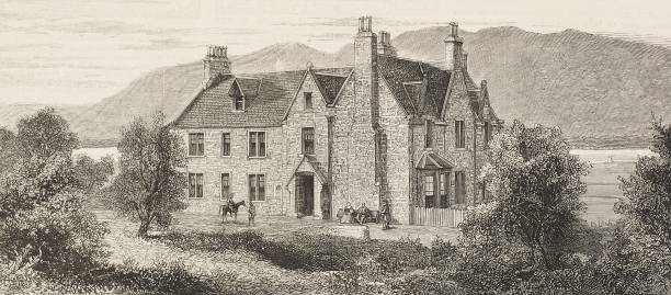 Loch Maree Hotel, where Queen Victoria stayed, United Kingdom, illustration from the magazine The Graphic, volume XVI, no 410, October 6, 1877.